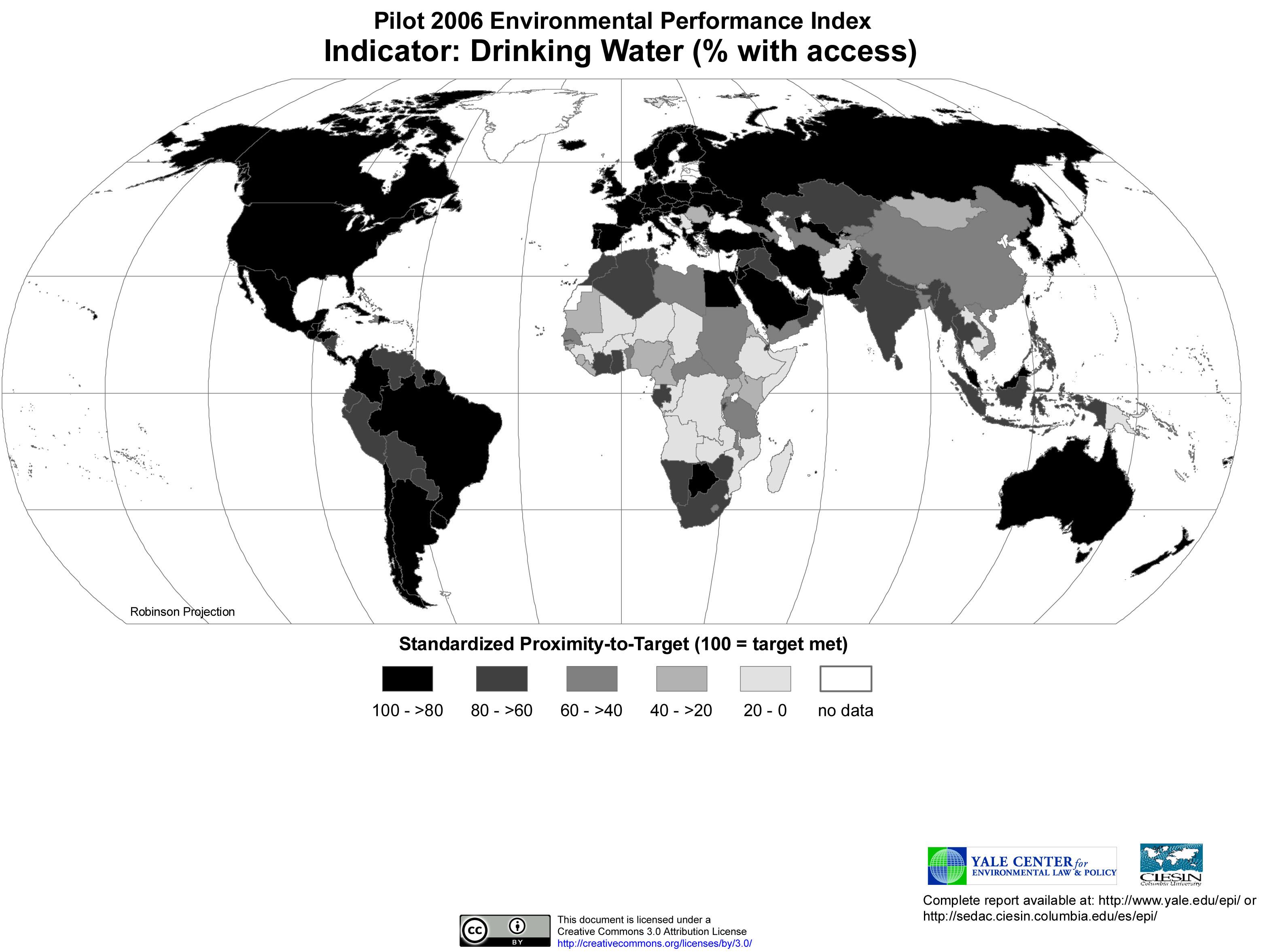 Drinking Water expressed in % with access